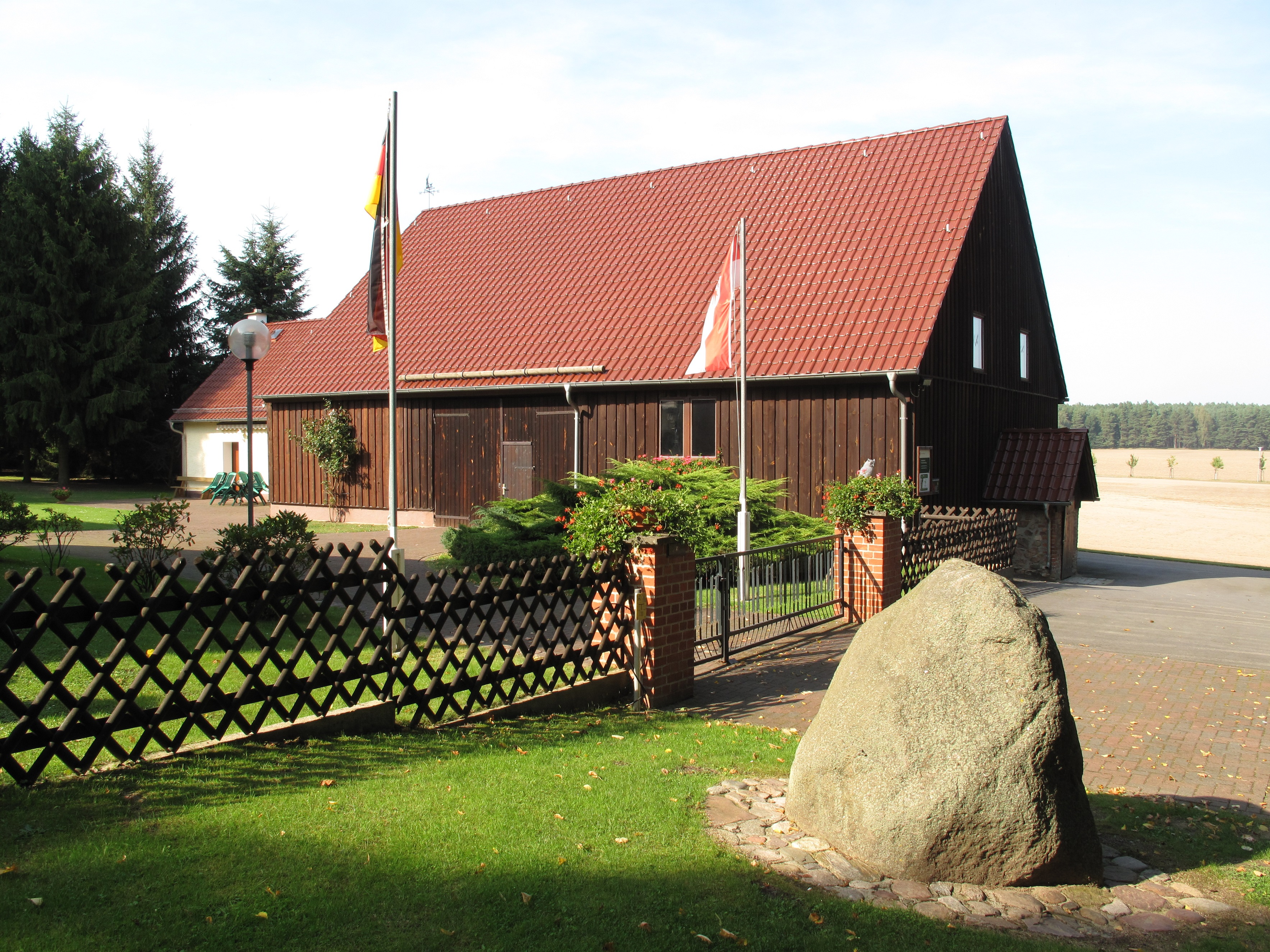 Forester's lodge Schwenow. Schwenow is a village in the District Oder-Spree, Brandenburg, Germany. Schwenow belongs to Limsdorf, a part (german: Ortsteil) of the town Storkow.